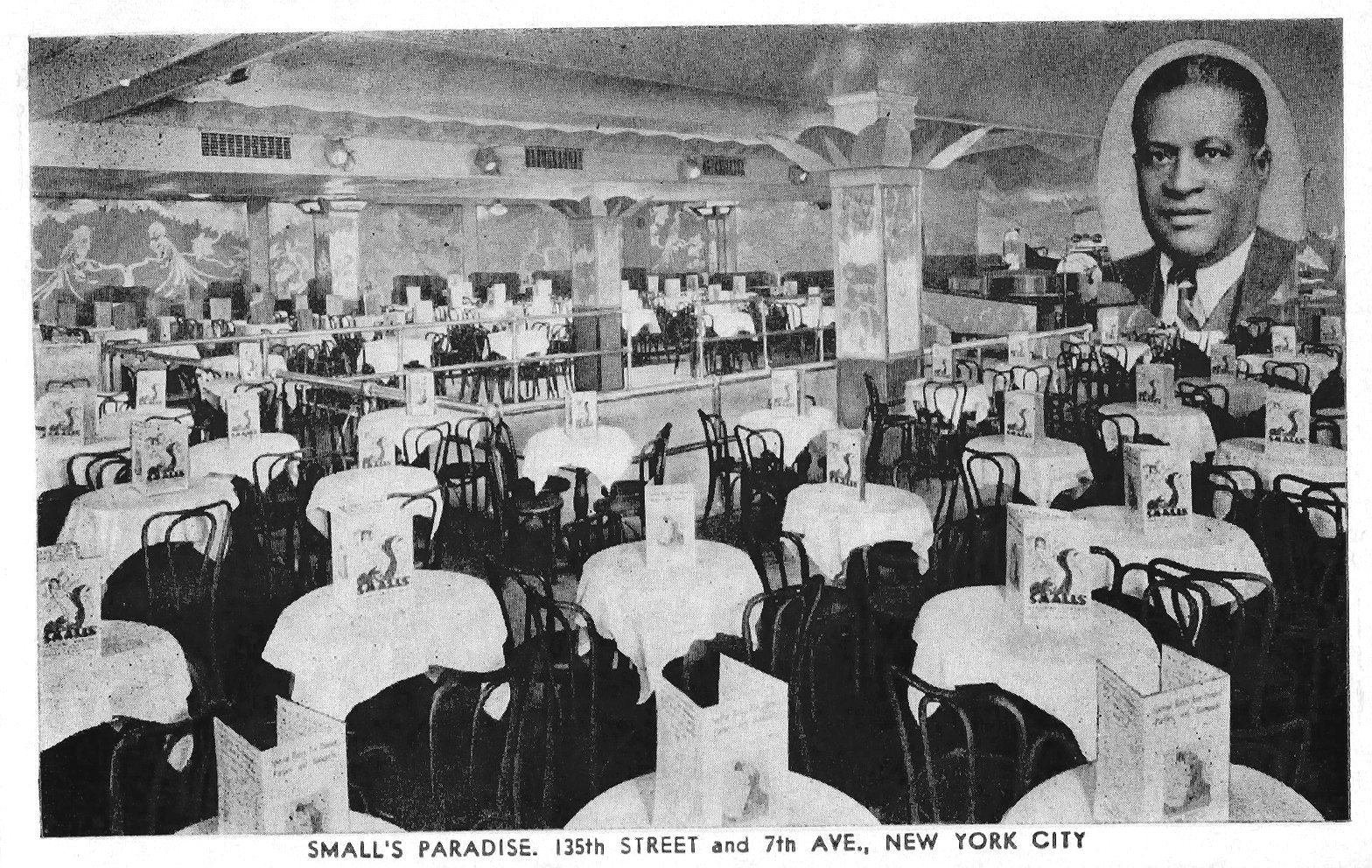 Photo of the Paradise Room at Smalls Paradise in New York. The man pictured at upper right is Ed Smalls, founder of the club and its owner until 1955.